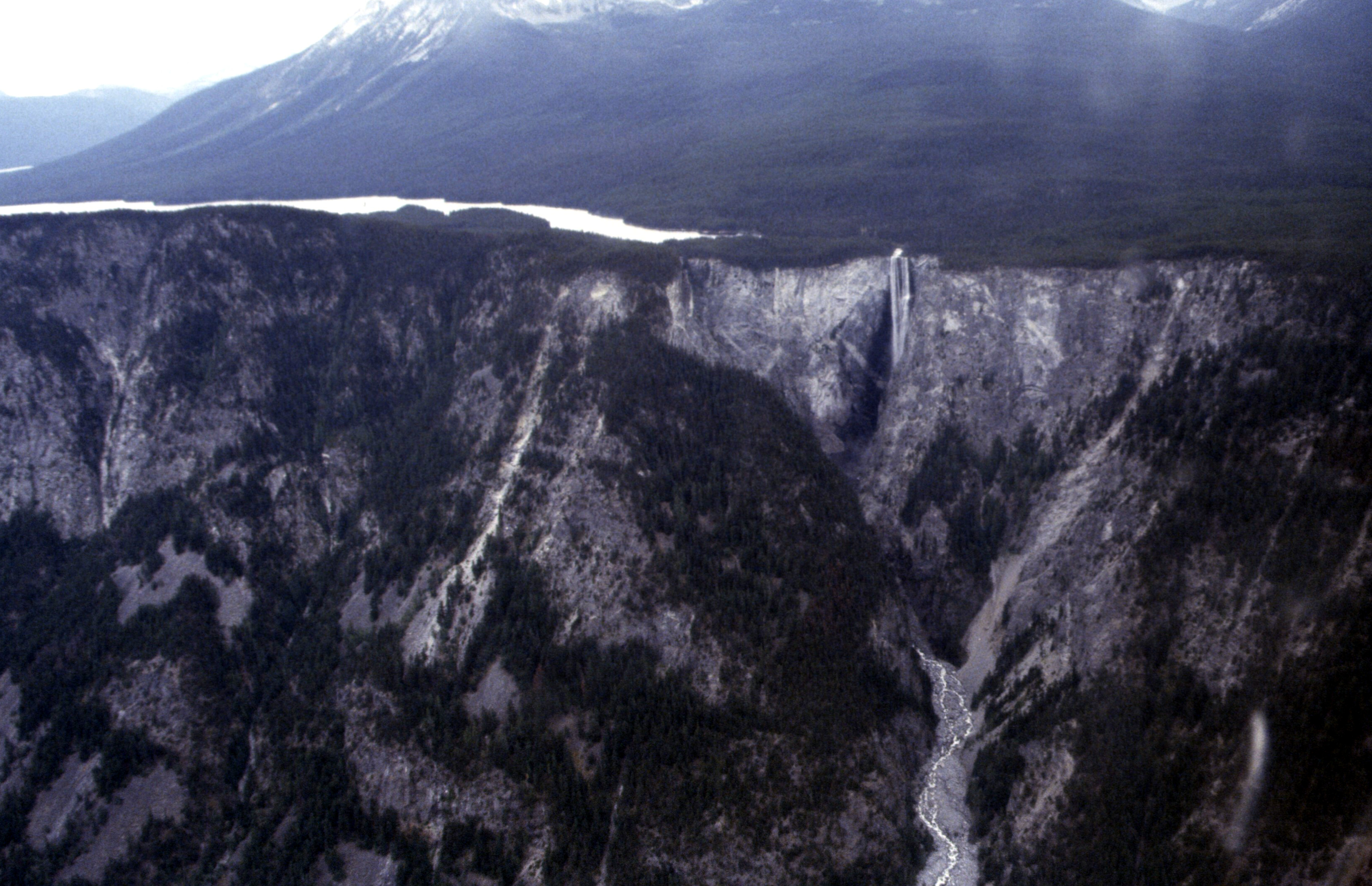 Hunlen Falls as seen from a plane, with Turner Lake in the background feeding the falls and snaking around the mountain, August 1981.